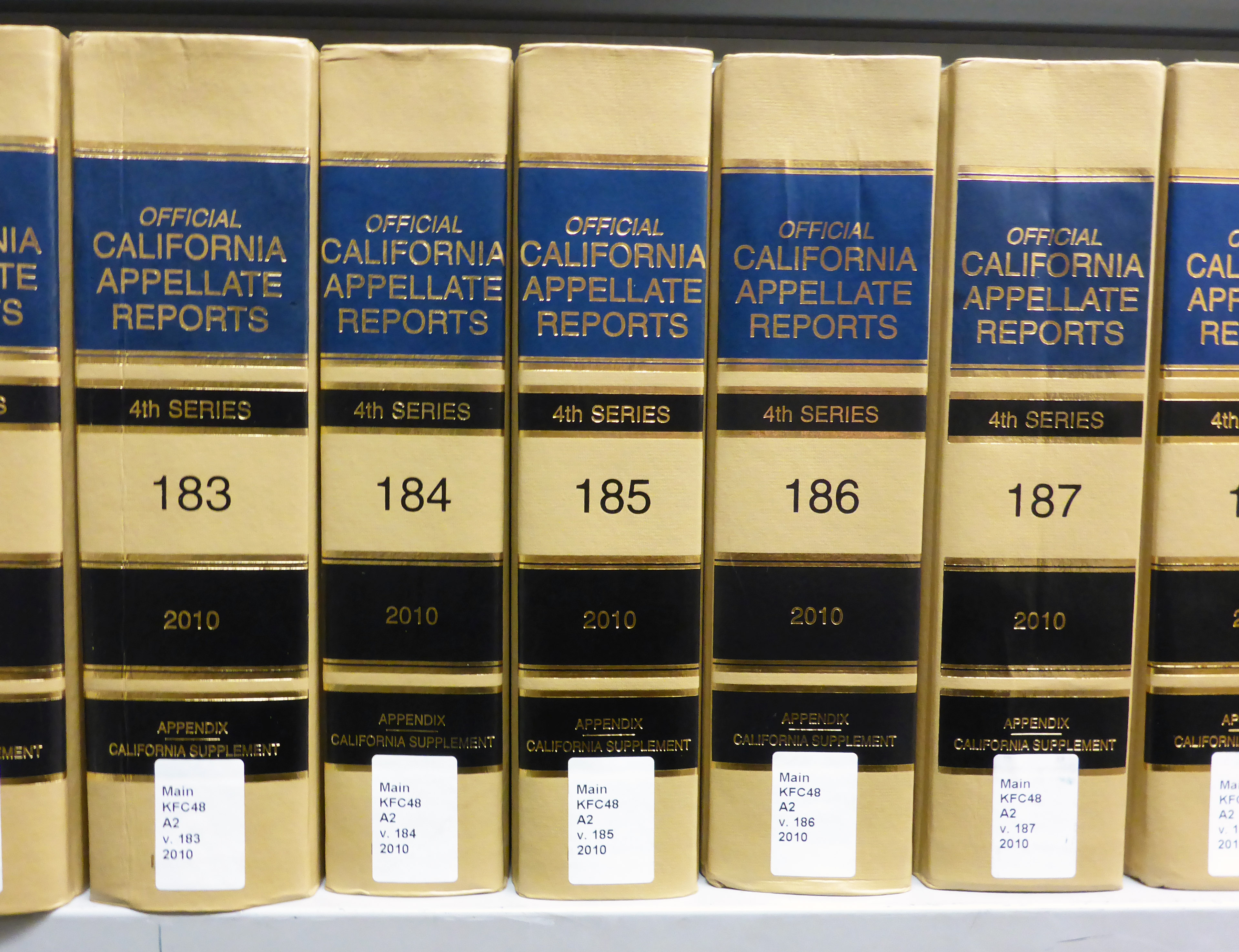 Volumes 183 to 187 of the California Appellate Reports, the official reporter of the California Courts of Appeal. Photographed by user Coolcaesar at a law library in Los Angeles, California on October 11, 2014.